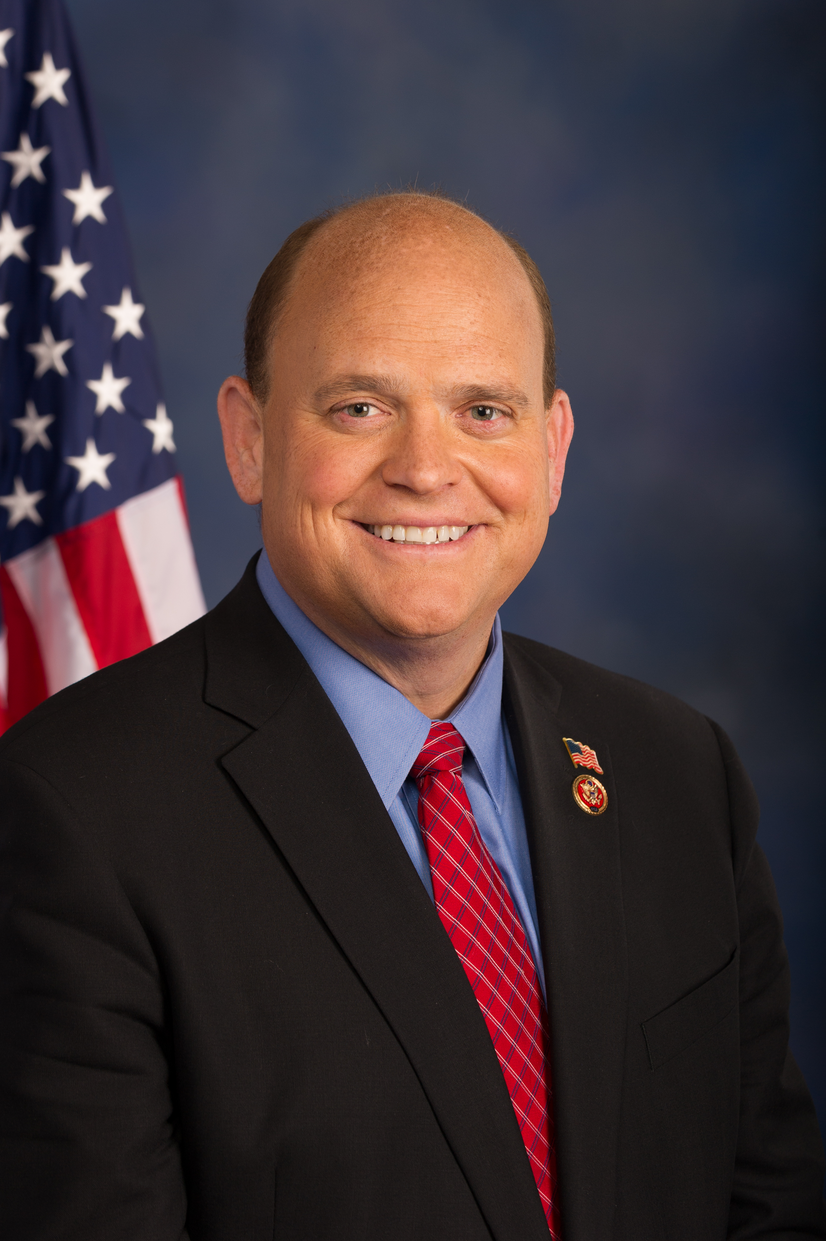 New Official Photo Of US Rep. Tom Reed